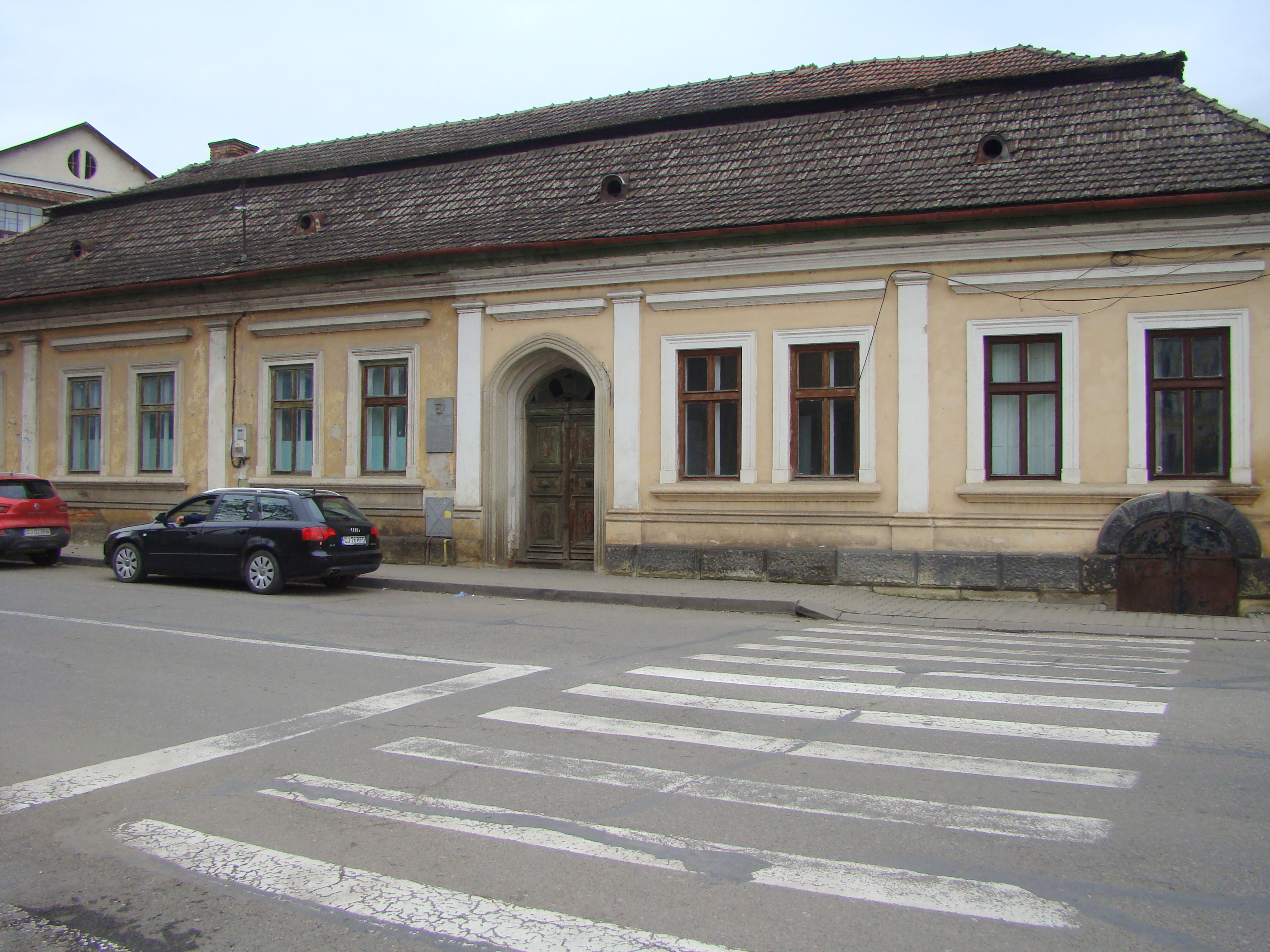 House, historic monument, in Dej, Mircea cel Bătrân street, number 2